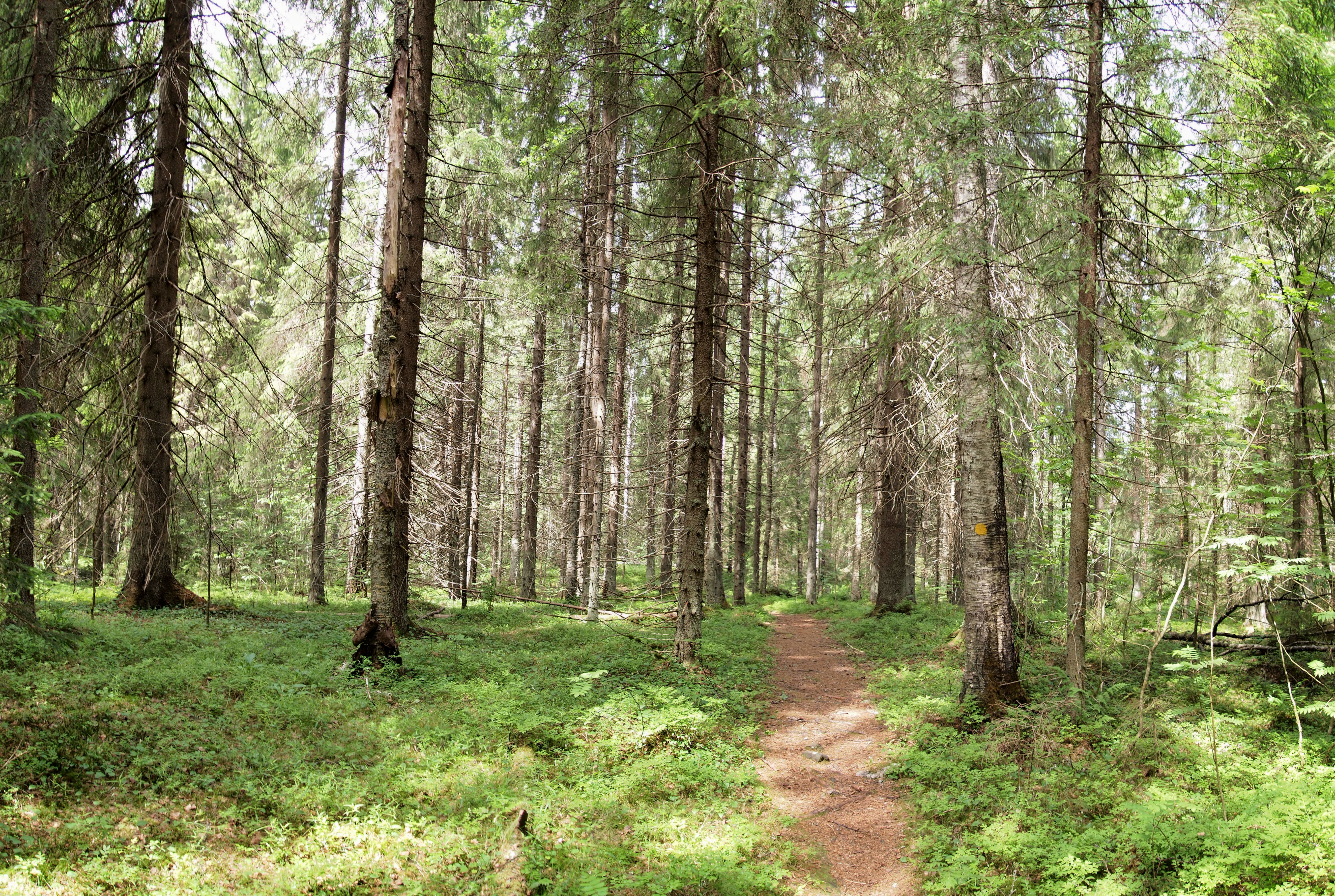 Sallaajärvi nature trail in Jyväskylä.